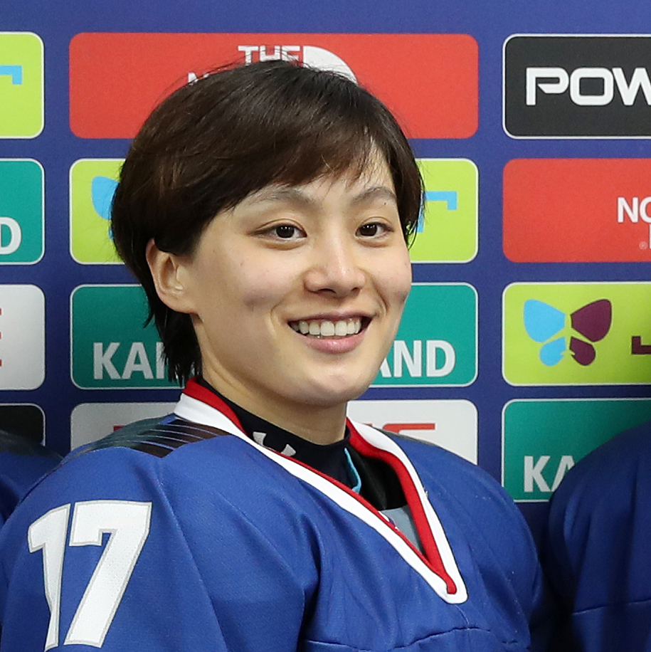 Members of the South Korean women's hockey team posing before their game against Australia. From left: Eom Su-yeon, Park Jong-ah, Han Soo-jin, Choi Yu-jung, Park Ye-eun, Lee Eun-ji IIHF Ice Hockey Women’s World Championship DIVⅡ Group A Korea vs Australia April 5, 2017 Kwandong Hockey Center, Gangneung-si, Gangwon-do Ministry of Culture, Sports and Tourism Korean Culture and Information Service ( Official Photographer : Jeon Han This official Republic of Korea photograph is being made available only for publication by news organizations and/or for personal printing by the subject(s) of the photograph. The photograph may not be manipulated in any way. Also, it may not be used in any type of commercial, advertisement, product or promotion that in any way suggests approval or endorsement from the government of the Republic of Korea.---------------------------------------------------- 2017 IIHF(국제아이스하키연맹) 아이스하키 여자 세계선수권대회 디비전Ⅱ 그룹 A한국 대 호주2017-04-05관동하키센터문화체육관광부해외문화홍보원코리아넷전한